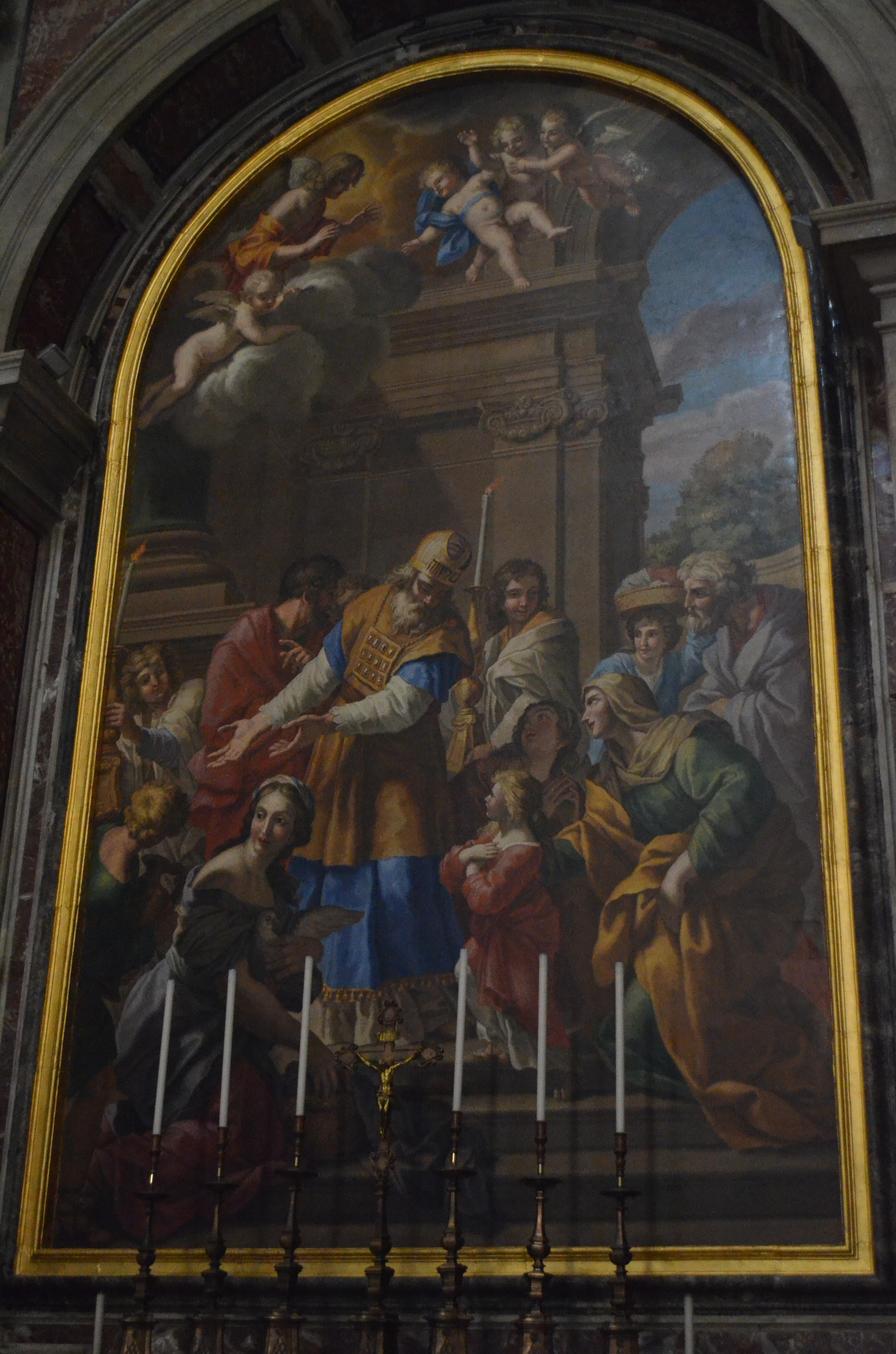 Saint Peter's Basilica